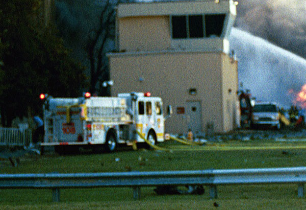 Photograph taken by an agent of the government in performance of his duties. Sgt. Burgess is an official Army photographer and a member of the Office of the Chief of Public Affairs. Photograph Date: 9/11/01 Time: After 9:44 before 9:57 Photographer: Carmen L. Burgess Staff Sgt., U.S. Army